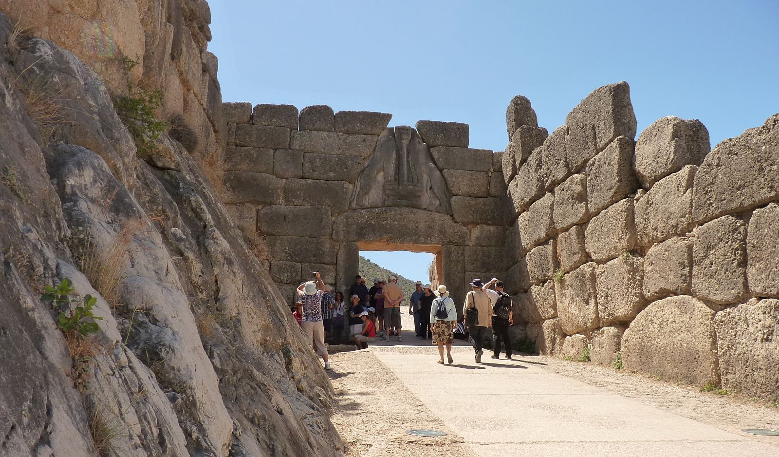 Ancient Mycenae 09